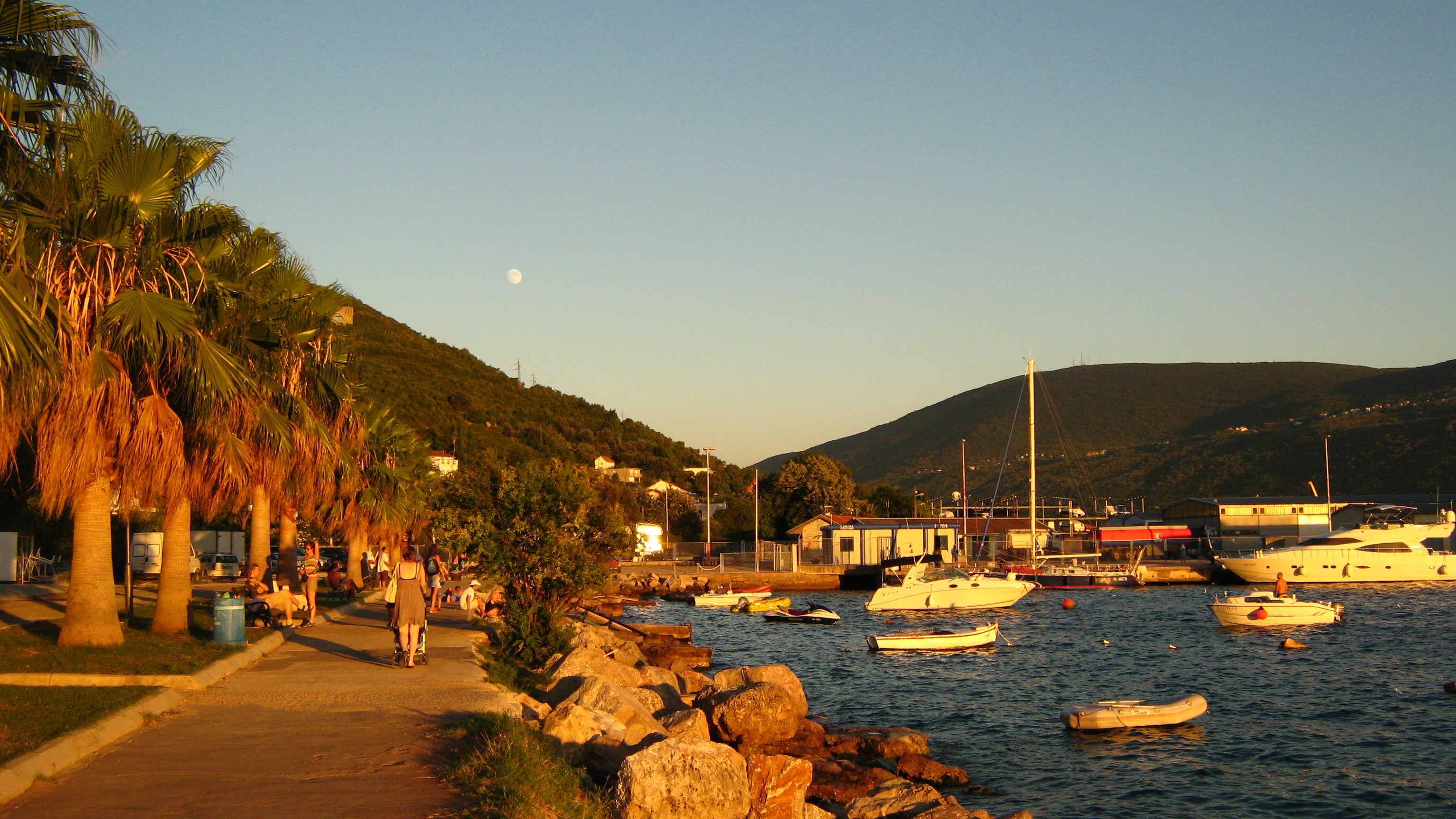 Sea front in Zelenika, MNE